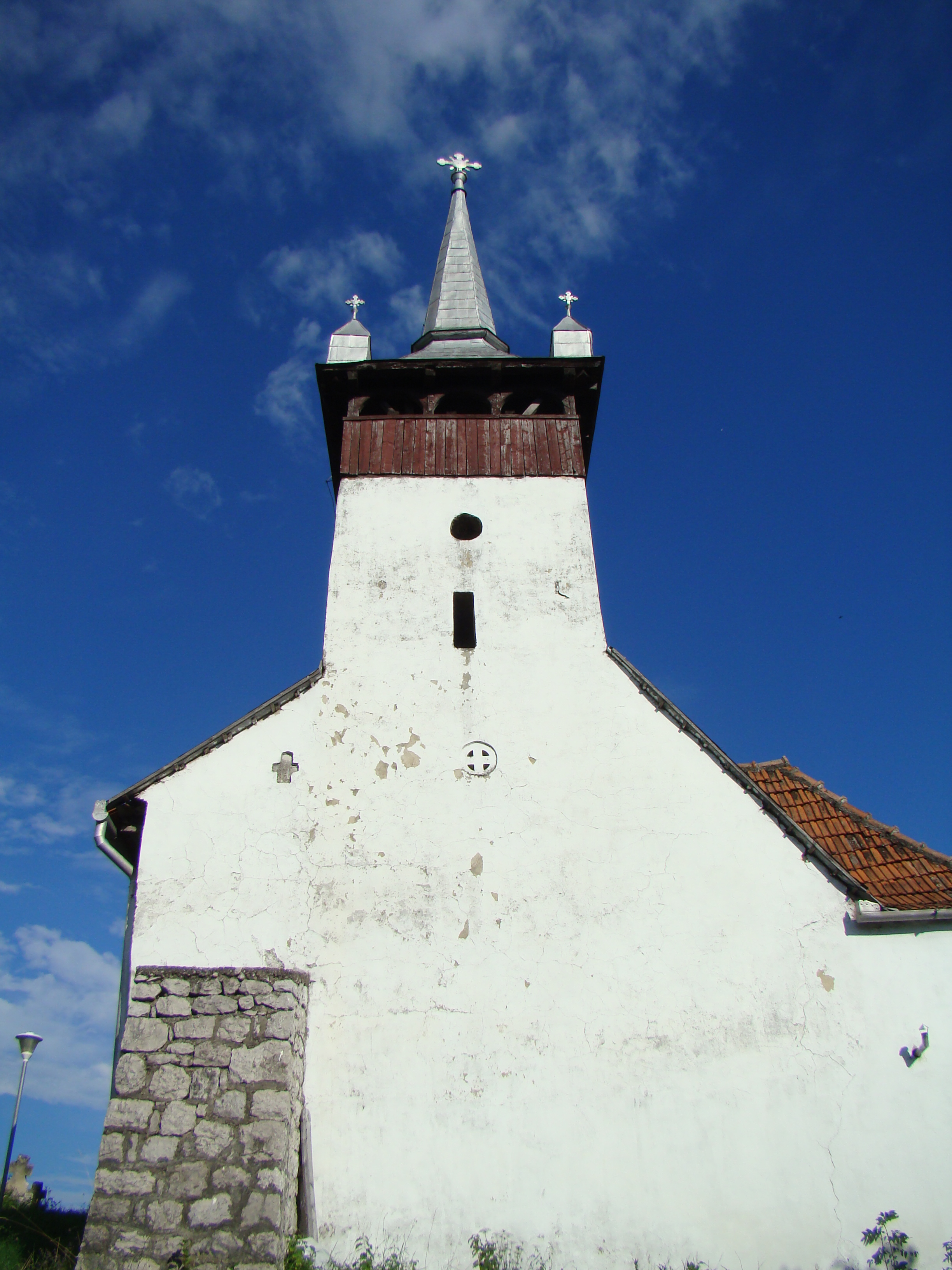 Church of the Dormition in Livezile, Alba county, Romania